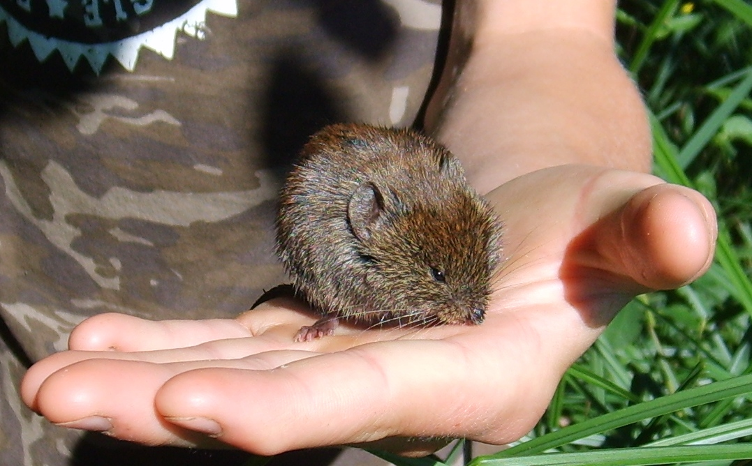 Microtus agrestis out of a moor in Interlaken, Switzerland. The skin colour is very similar to that of Myodes glareolus. But because of the dark hind feet, the orderless hair and a two-coloured tail I would say its a Microtus agrestis.